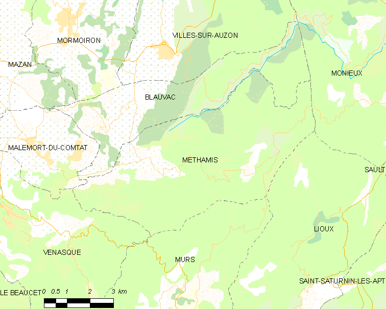 Map of French municipality Méthamis